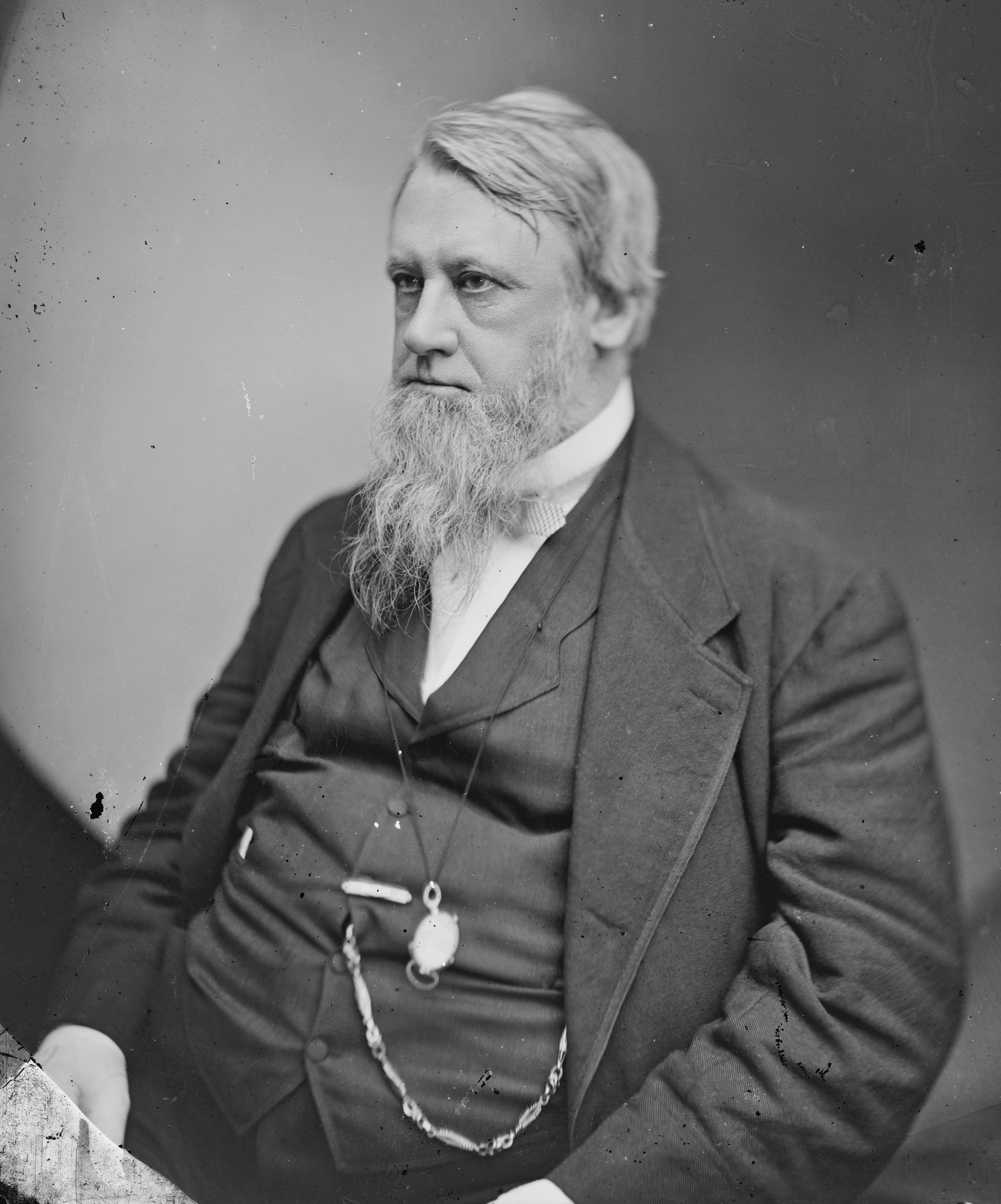 Henry B. Anthony. Library of Congress description: "Anthony, Hon. Henry Bowen of R.I. Senator, Gov. of R.I."